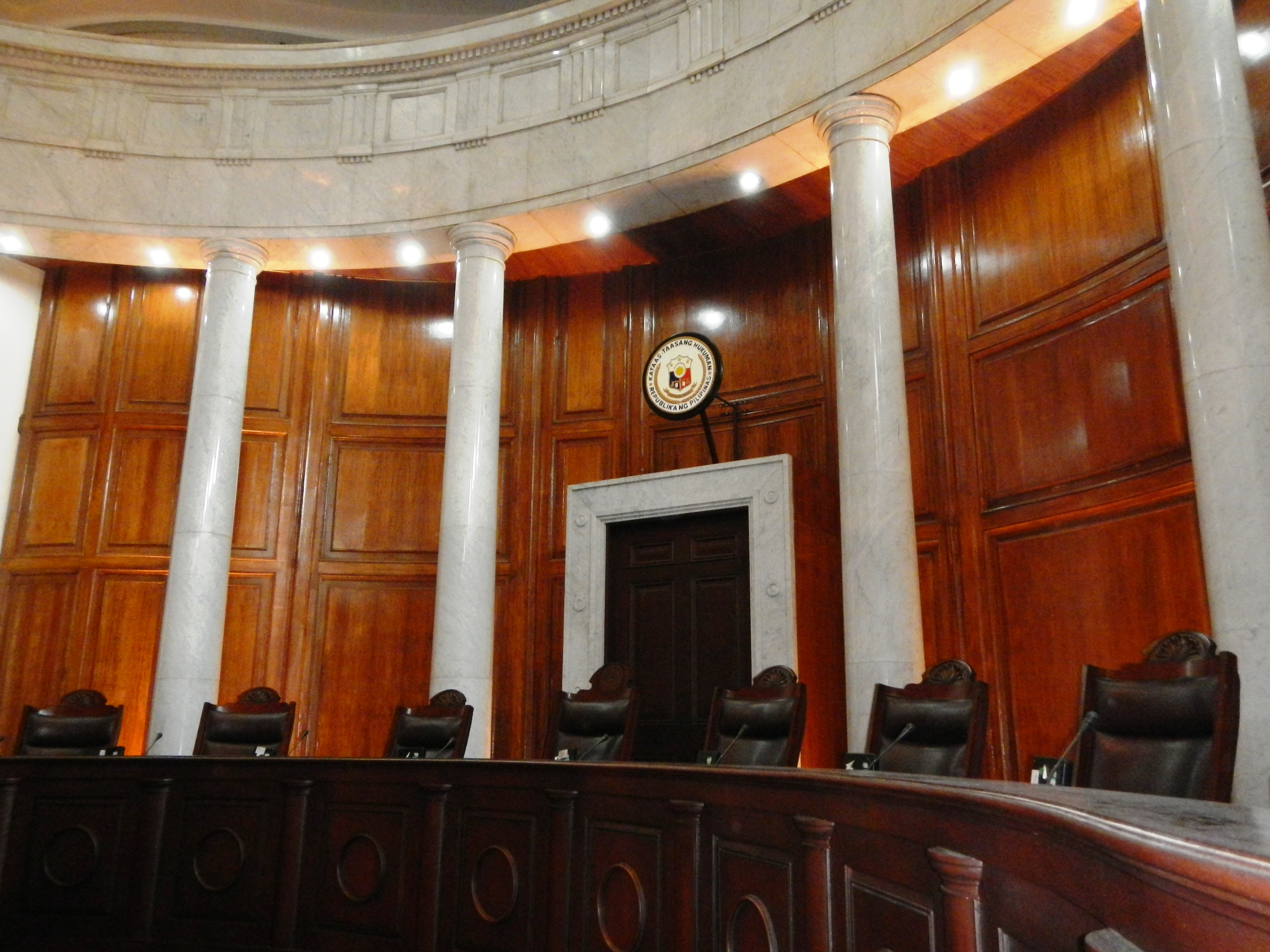 Upload Wizard photos of the - November 4, 2013, (exclusive for Wikipedia, Commons) Landmark, Historical - Supreme Court of the Philippines Eulogies [1] or Necrological service for - Andres Narvasa[2], (retired Chief Justice of the Supreme Court of the Philippines, 1991–1998 [3] [4] married to Janina Yuseco Ex-Chief Justice Narvasa given full honors at Supreme Court; Chief Justice [5] and Chief Justice Maria Lourdes Sereno[6] delivered Eulogies - responded by the Narvasa family, represented by Atty. Gregorio Narvasa II; Narvasa passed away last October 31, 2013, the 112th Associate Justice of the Supreme Court on April 11, 1986; became the 19th Chief Justice of the Philippines from Dec. 1, 1991 to Nov. 30, 1998; his cremated remains will be interred November 8, 2013 at the Our Lady of Mt. Carmel Shrine Parish Church, New Manila, in Quezon City.[7] - C justices pay tribute to ex-CJ Narvasa November 4, 2013 CJ Narvasa's remains arrive at SC with full honors SC justices pay tribute to ex-CJ Narvasa Chief Justice Maria Lourdes Sereno led other Justices' tribute at the Supreme Court on Monday, November 4.Ex-Chief Justice Narvasa honored in SC - attended by - Lucas Bersamin[8], Bienvenido L. Reyes[9], Mariano del Castillo [10] and Roberto A. Abad[11], Jose Perez, Bernardo P. Pardo[12], among others.SC honors late CJ Narvasa Binays pay tribute to ex-CJ Narvasa Website, Supreme Court of the Philippines (Ret.) Chief Justice Andres Narvasa, 84